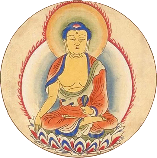 Ashuku Nyorai (Akshobhya Buddha). Transperent background from File:AshukuNyorai.jpg